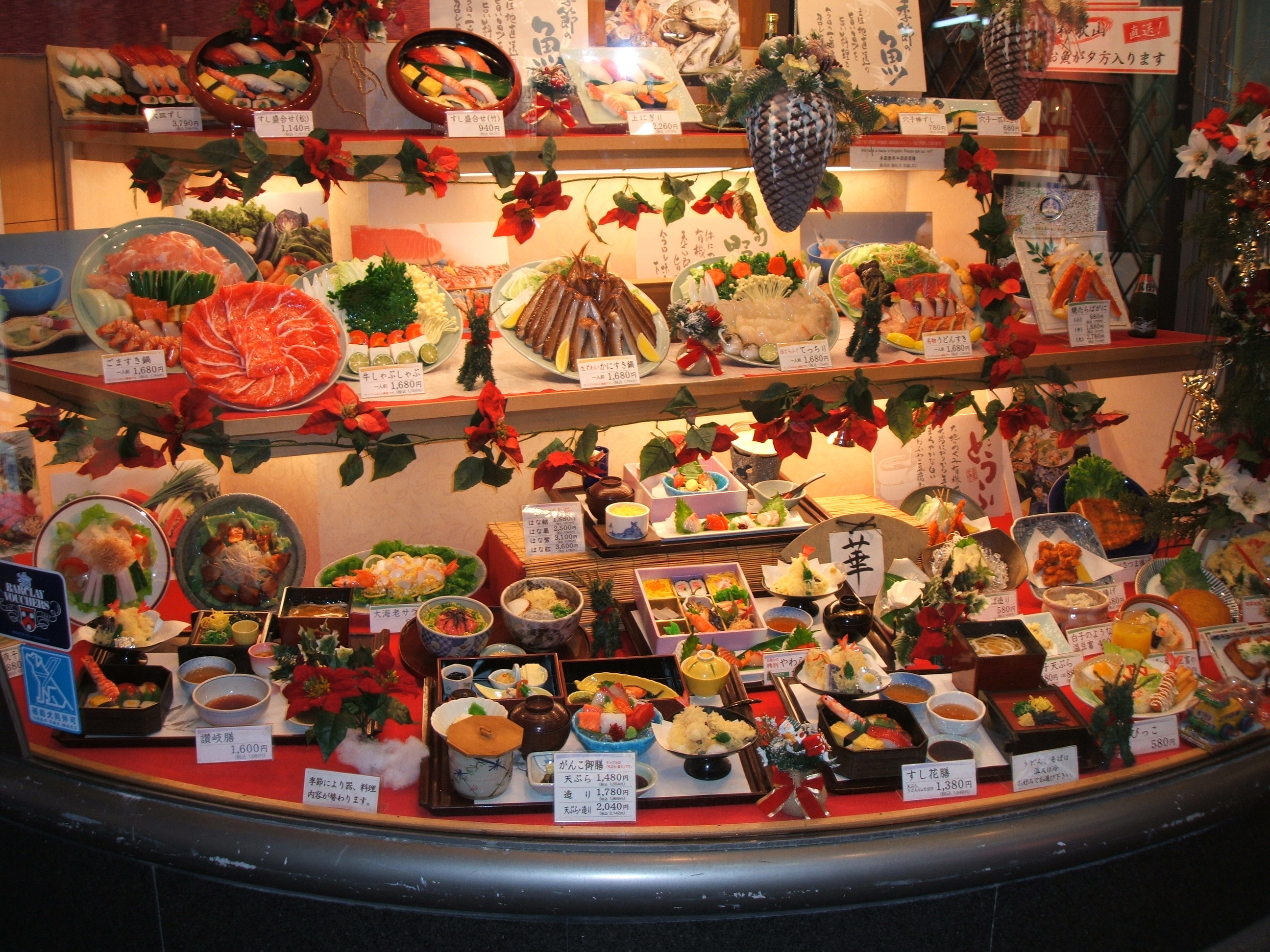 Display (fake) food made of plastic. Just looking at the plastic and already got hungryJapanese display food at Kyoto